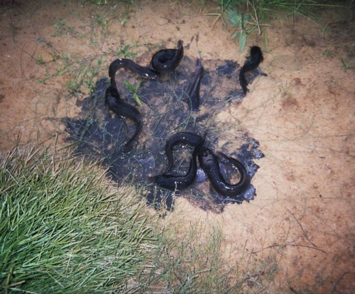 Young African catfish, caught in the sewer system of Rishon Le-Zion, Israel